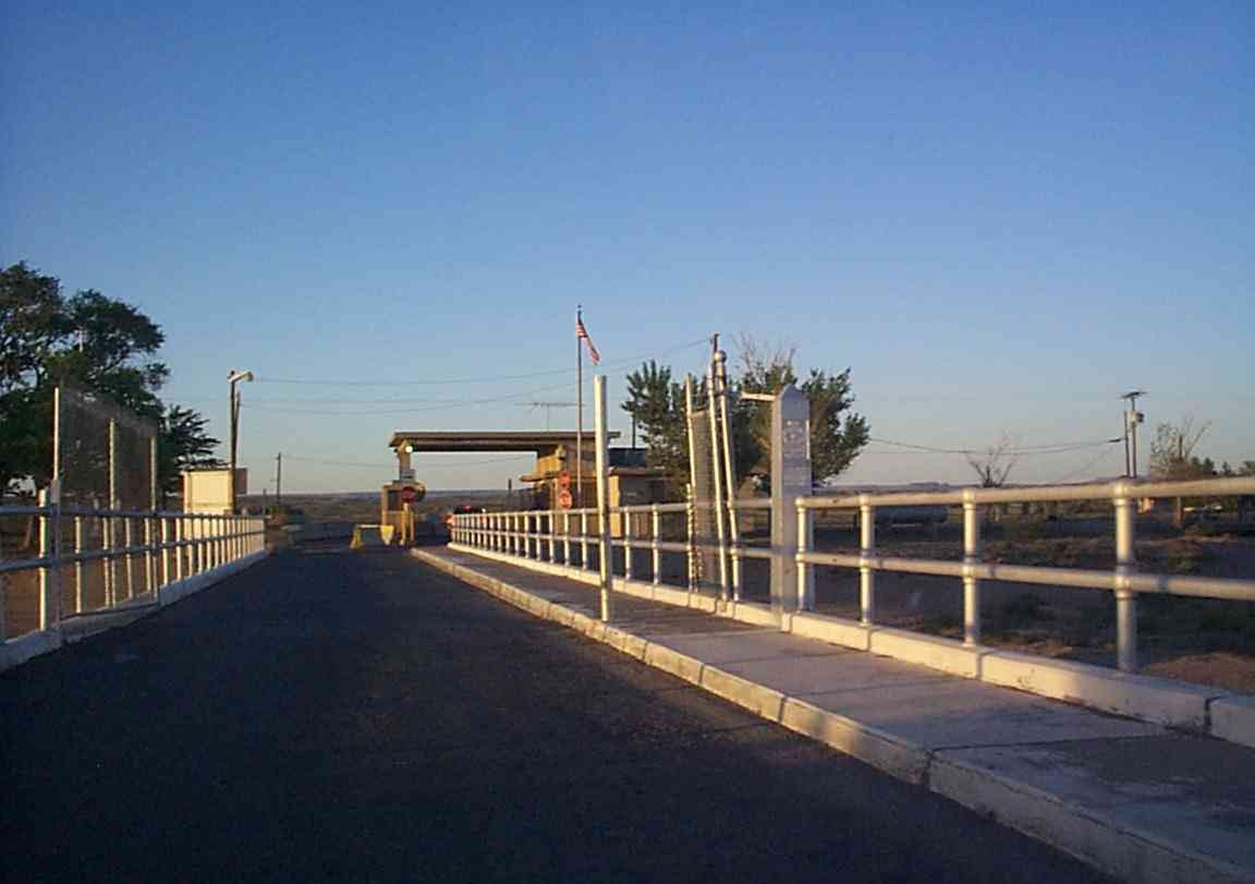 Fort Hancock TX old border station